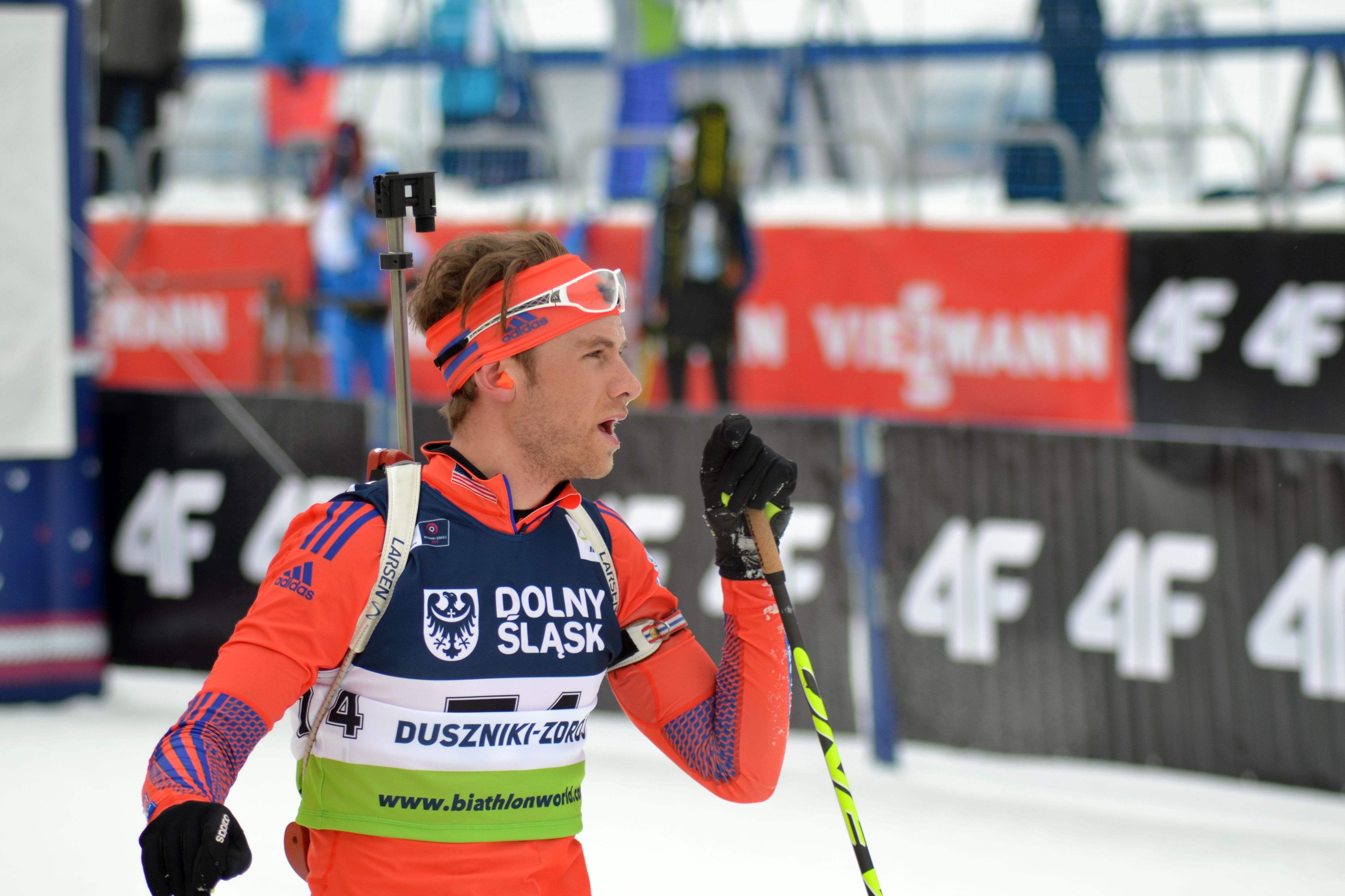 Open European Championships Biathlon 2017, Individual Men's race, held on January 25th.